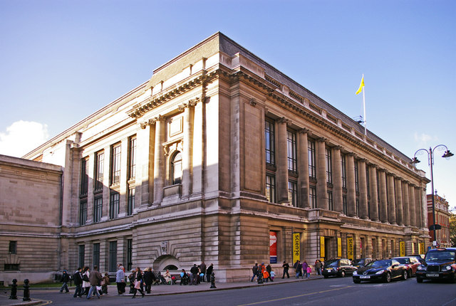 Science Museum, Exhibition Road, London SW7